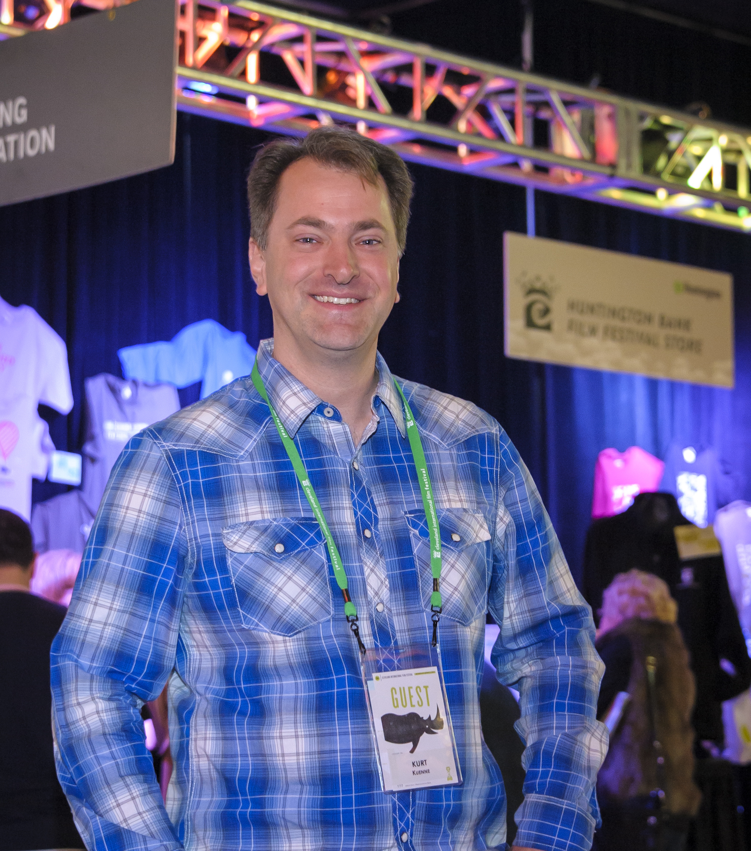 Kurt Kuenne at the 36th Cleveland International Film Festival 2012